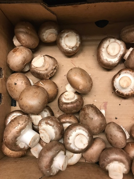 Mushroom provides the veggie patty with texture and taste.